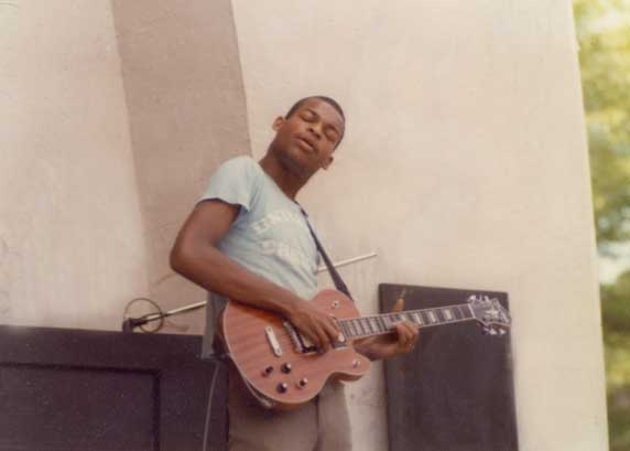 Arthur Rhames playing guitar at Prospect Park Band Shell